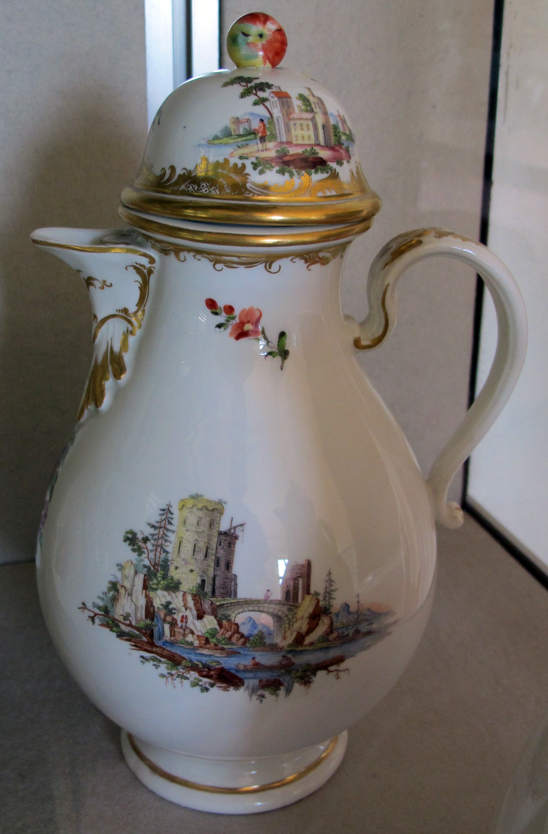 Porcelain Museum (Florence) - Vienna porcelain